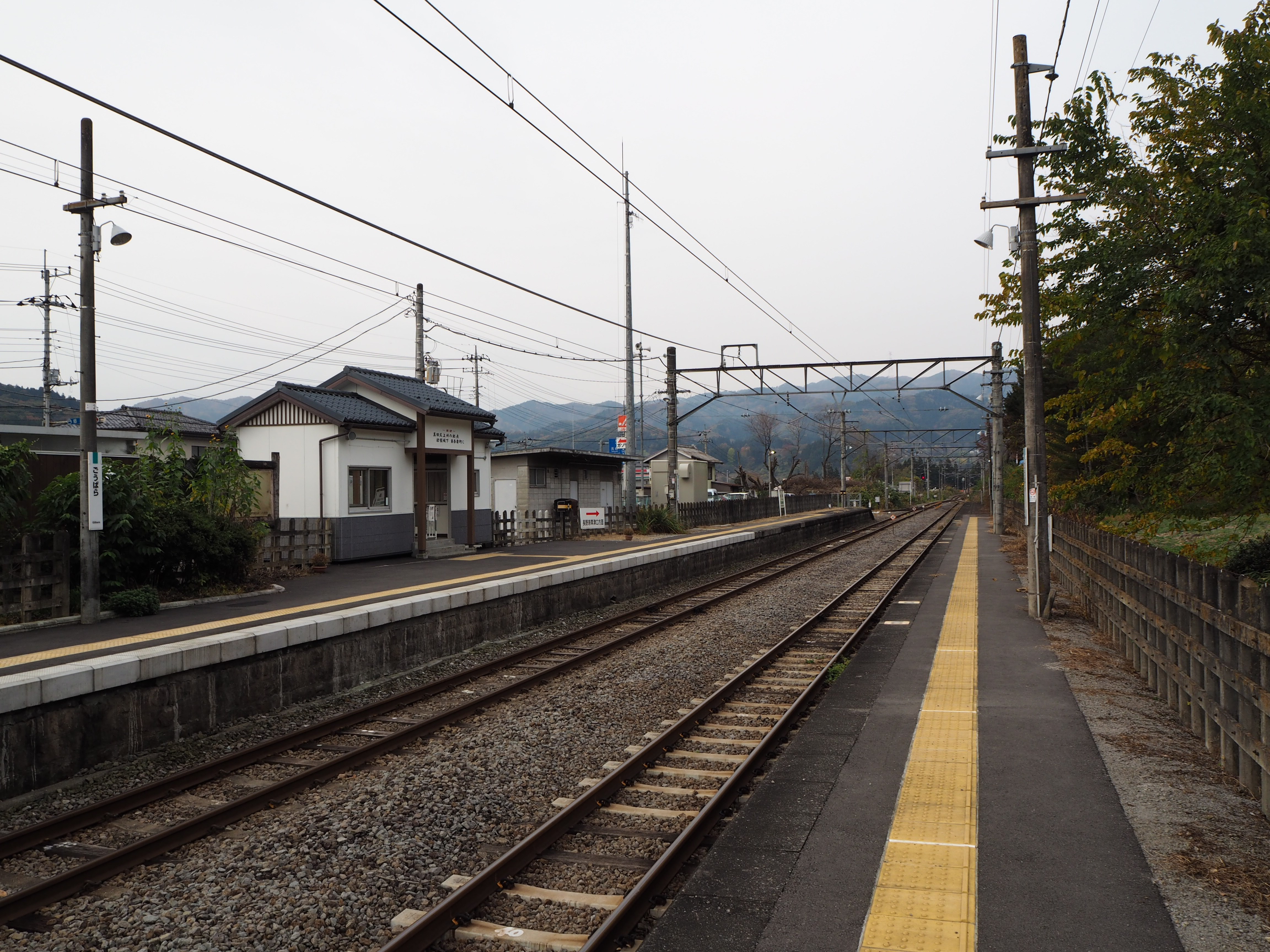 Platforms of Gōbara Station